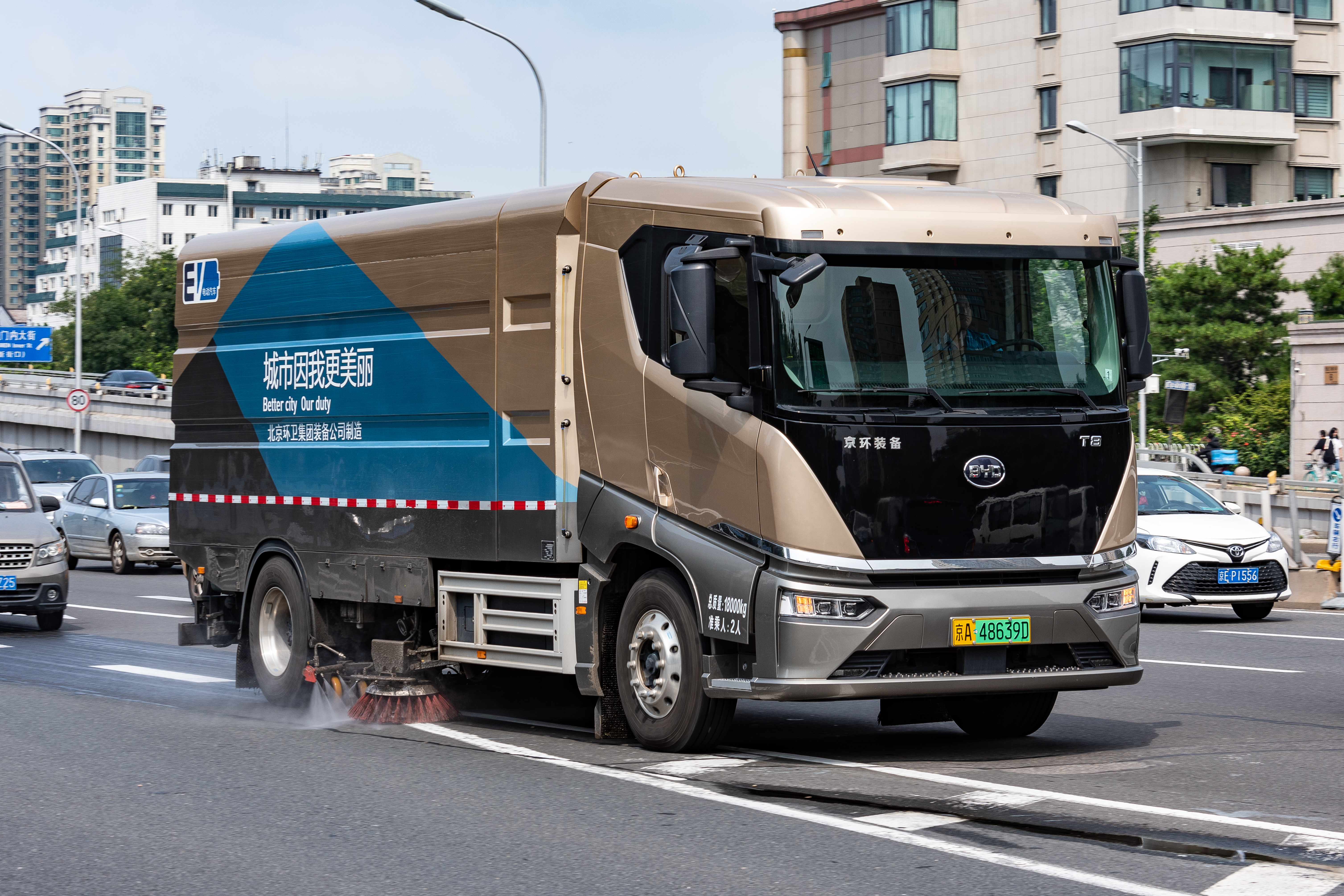 4869? Sherlock? Not this case... This is a 2019 BYD T8 sweeper truck.